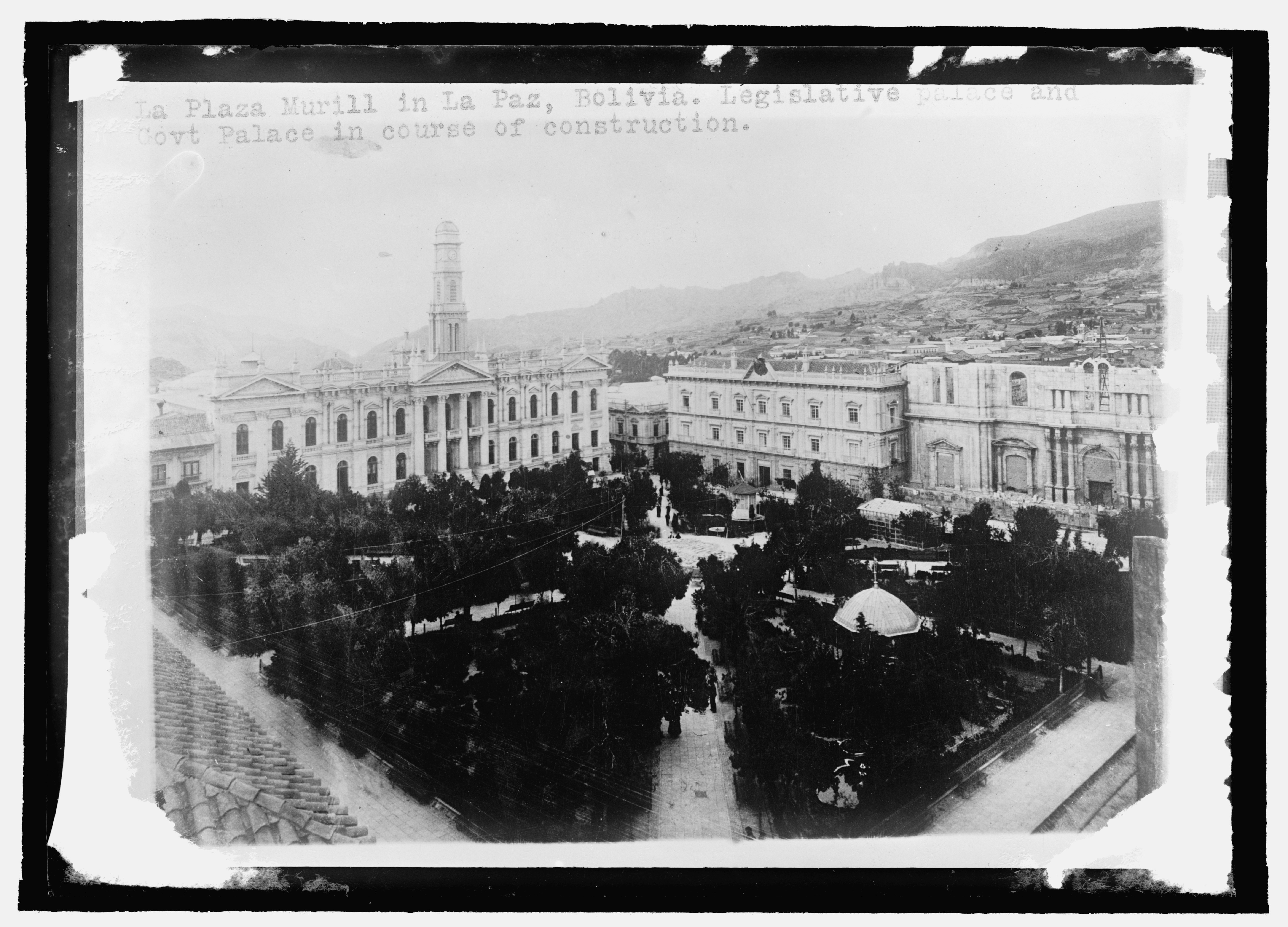 Title: La Plaza Murill, La Paz, Bolivia Abstract/medium: 1 negative : glass ; 5 x 7 in. or smaller